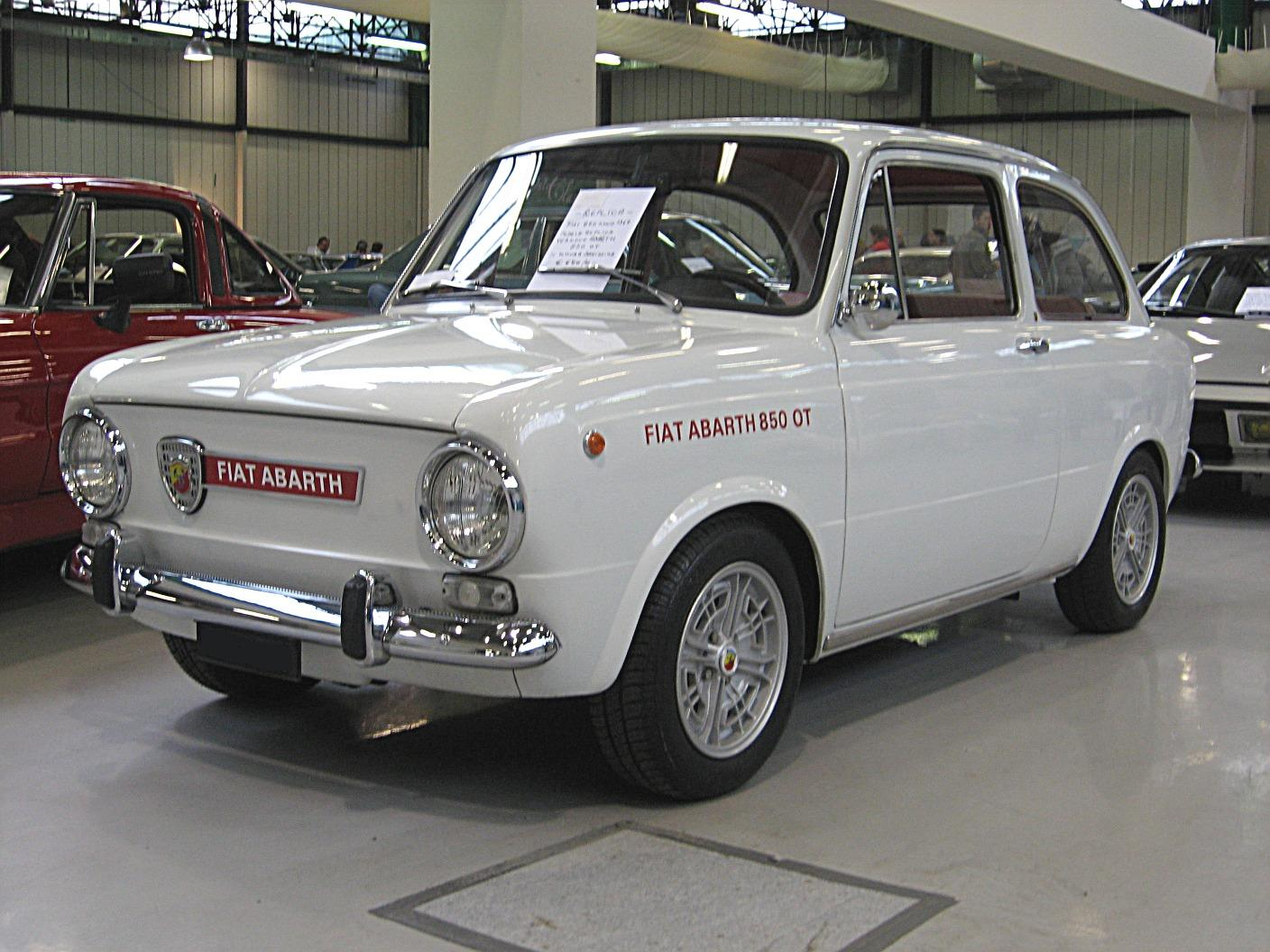 Subject:Abarth OT 850 Author:Luc106 Date:March 15th, 2007 Event:Old Timer Show 2008 Place/Country: Forlì, Italy I release all rights in the public domain.